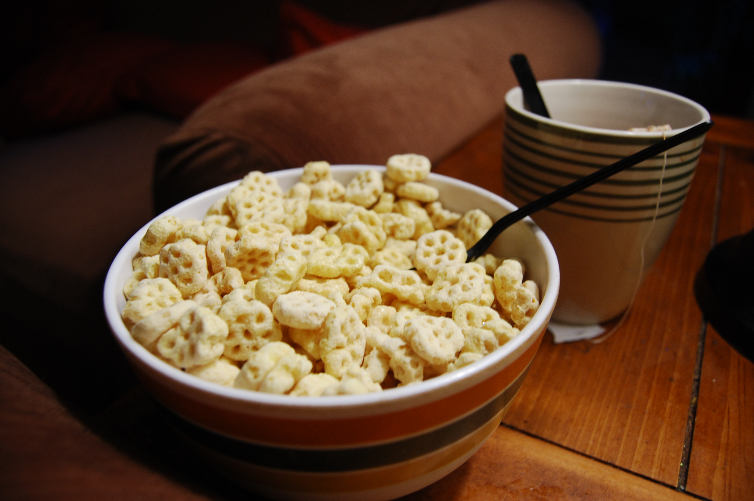 Bowl of Honeycomb cereal